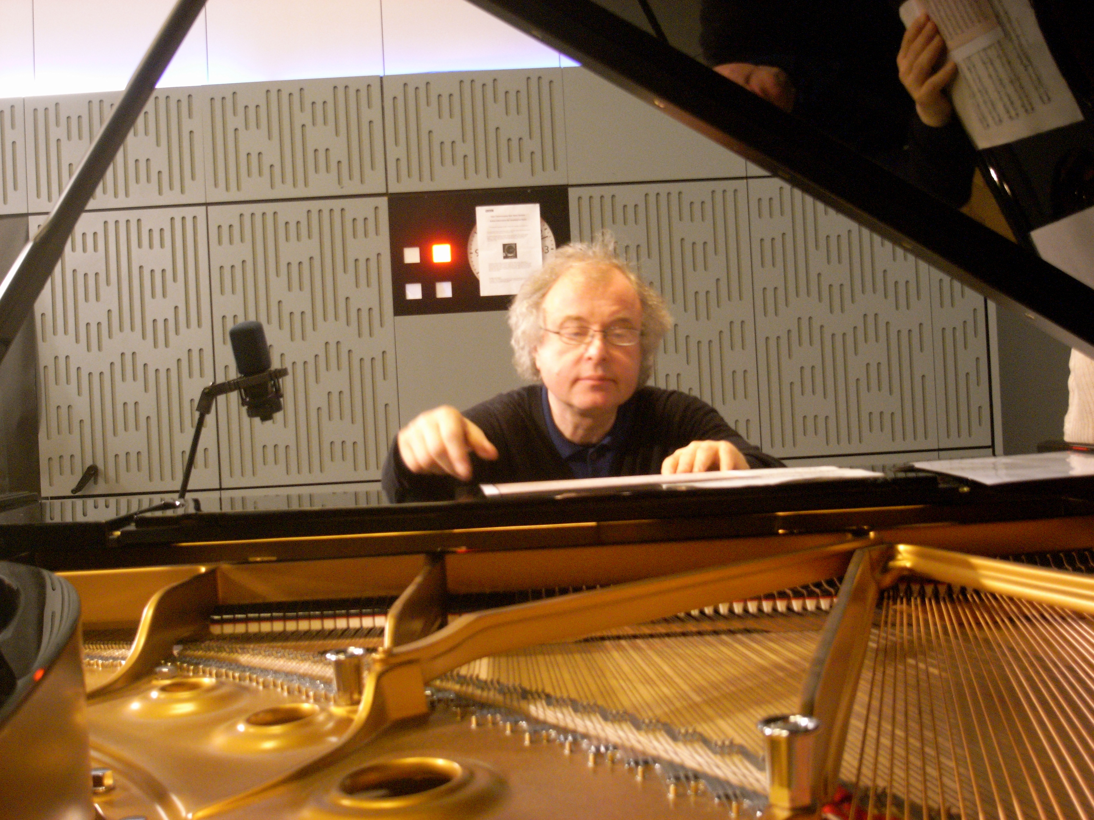 András Schiff, pianist, at the Steinway grand piano in studio 80A, where he played a recently-discovered piano work by Johannes Brahms for a recording of BBC Radio 3's Music Matters to be transmitted on Saturday 21 January 2012.